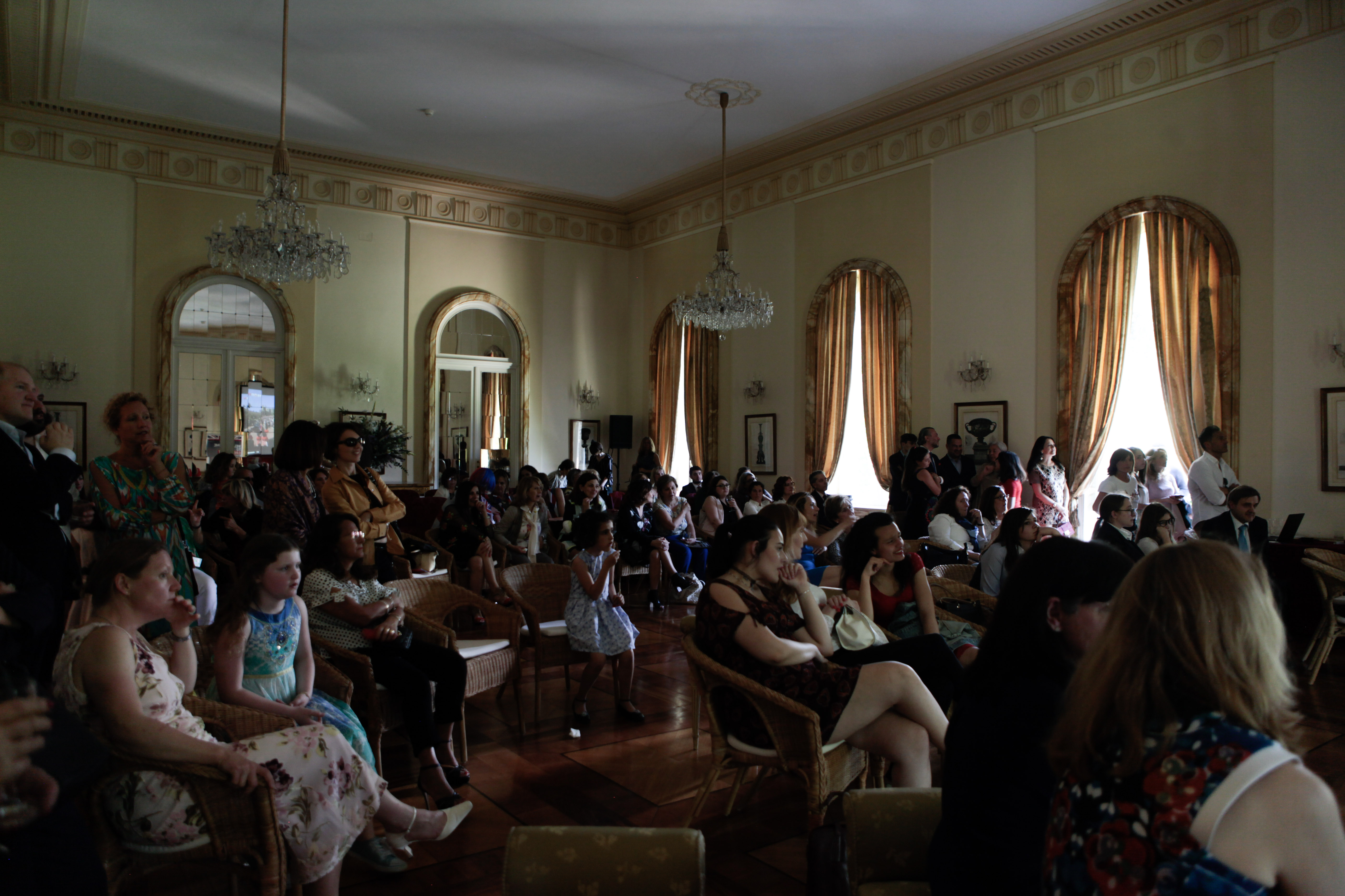 Royal Wedding celebrations in the Villa Wolkonsky, the official residence of the United Kingdom Ambassador to Rome